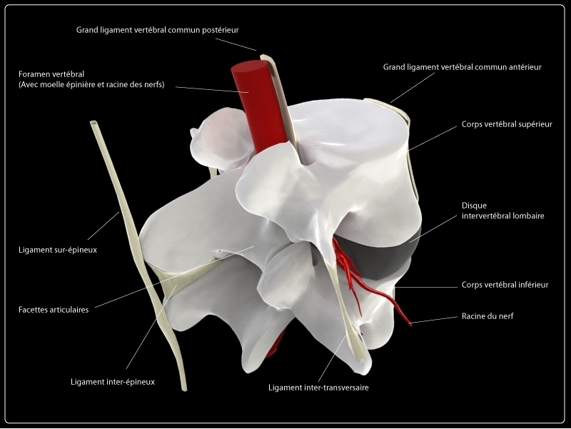 Spinal segment